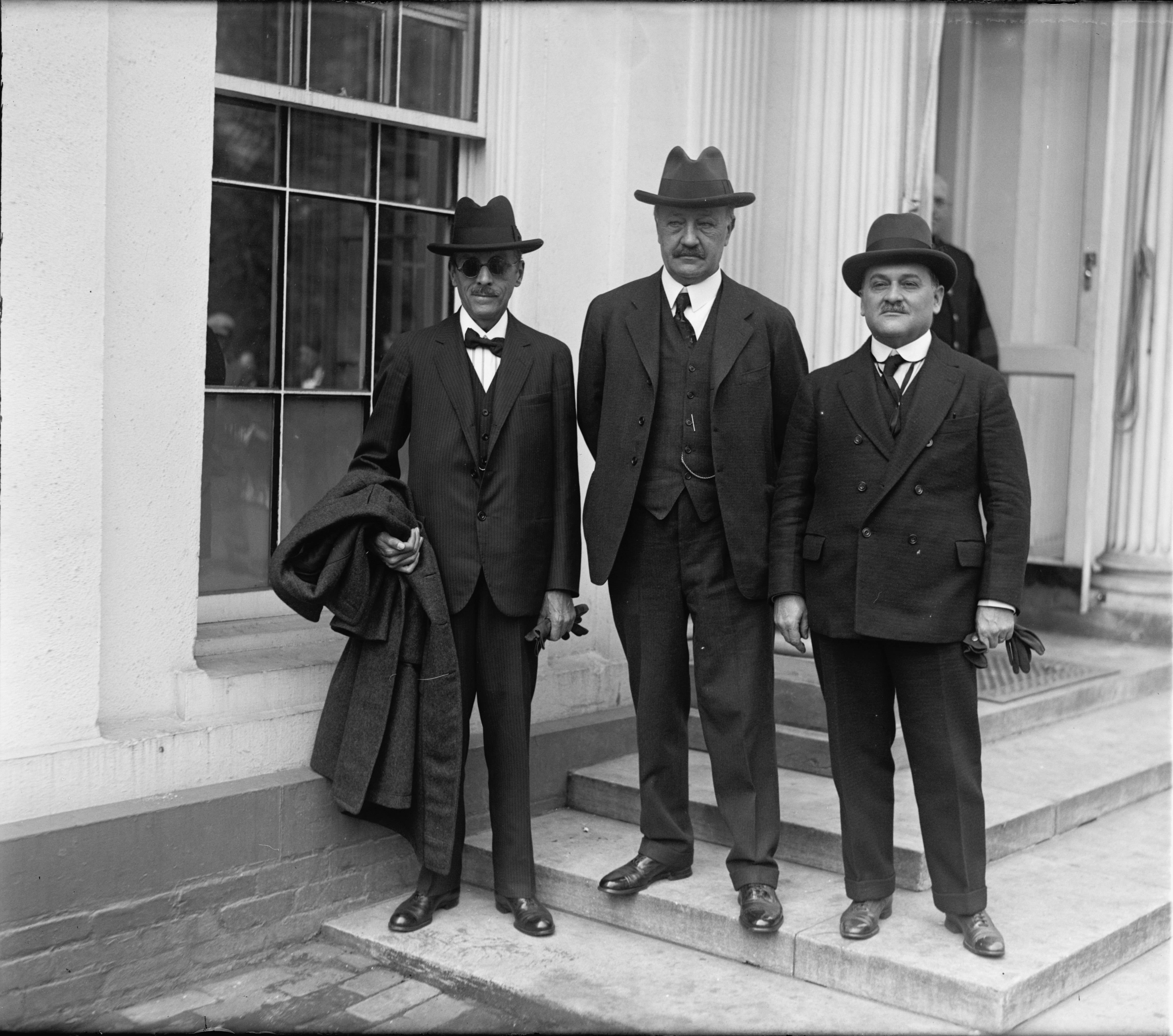 Title: Tacna-Arica Boundary Com., Louis Risopatron, J.J. Marrow, Col. O.H. Ardoney, 4/19/27 Abstract/medium: 1 negative : glass ; 4 x 5 in. or smaller